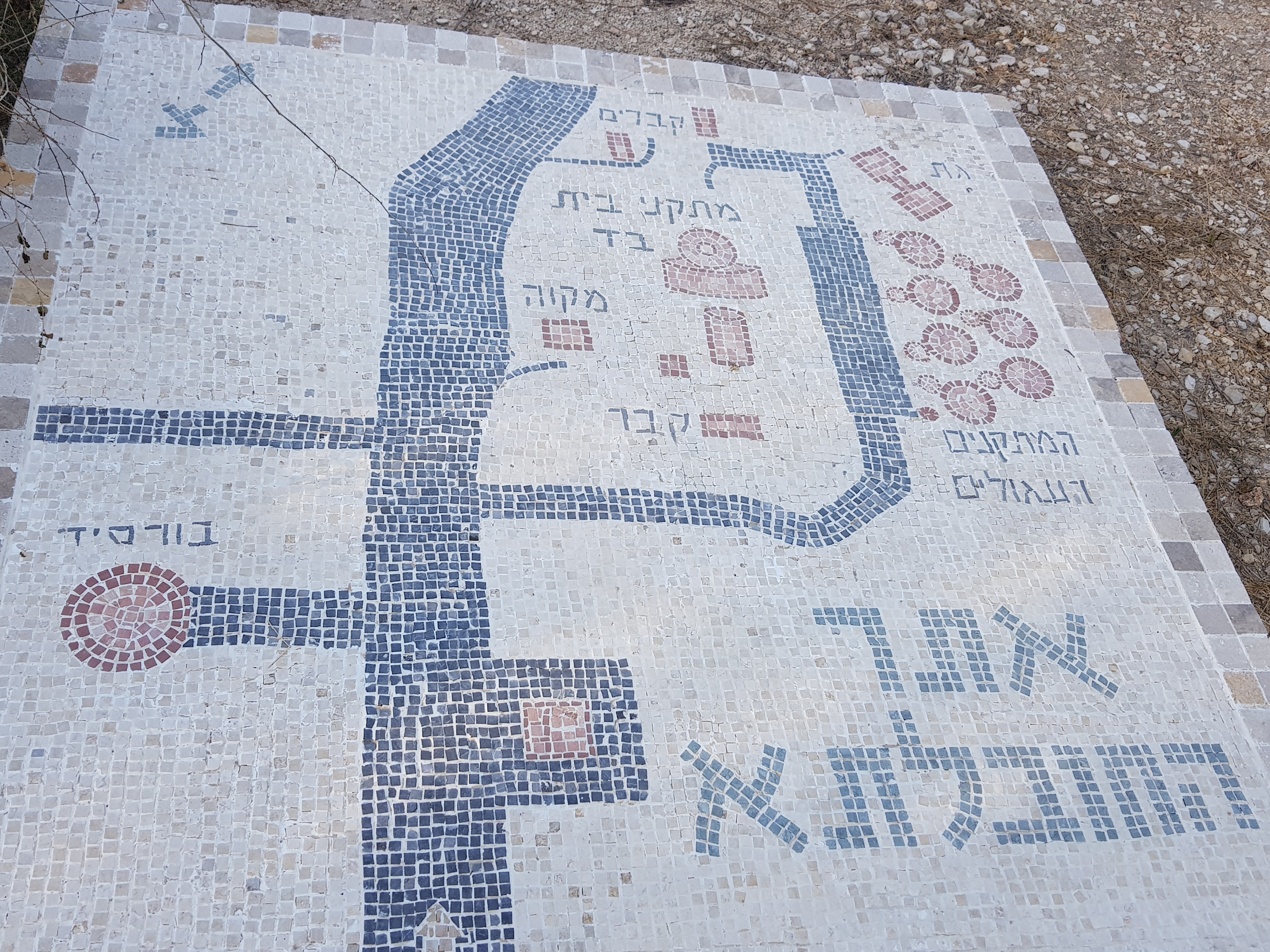 local map